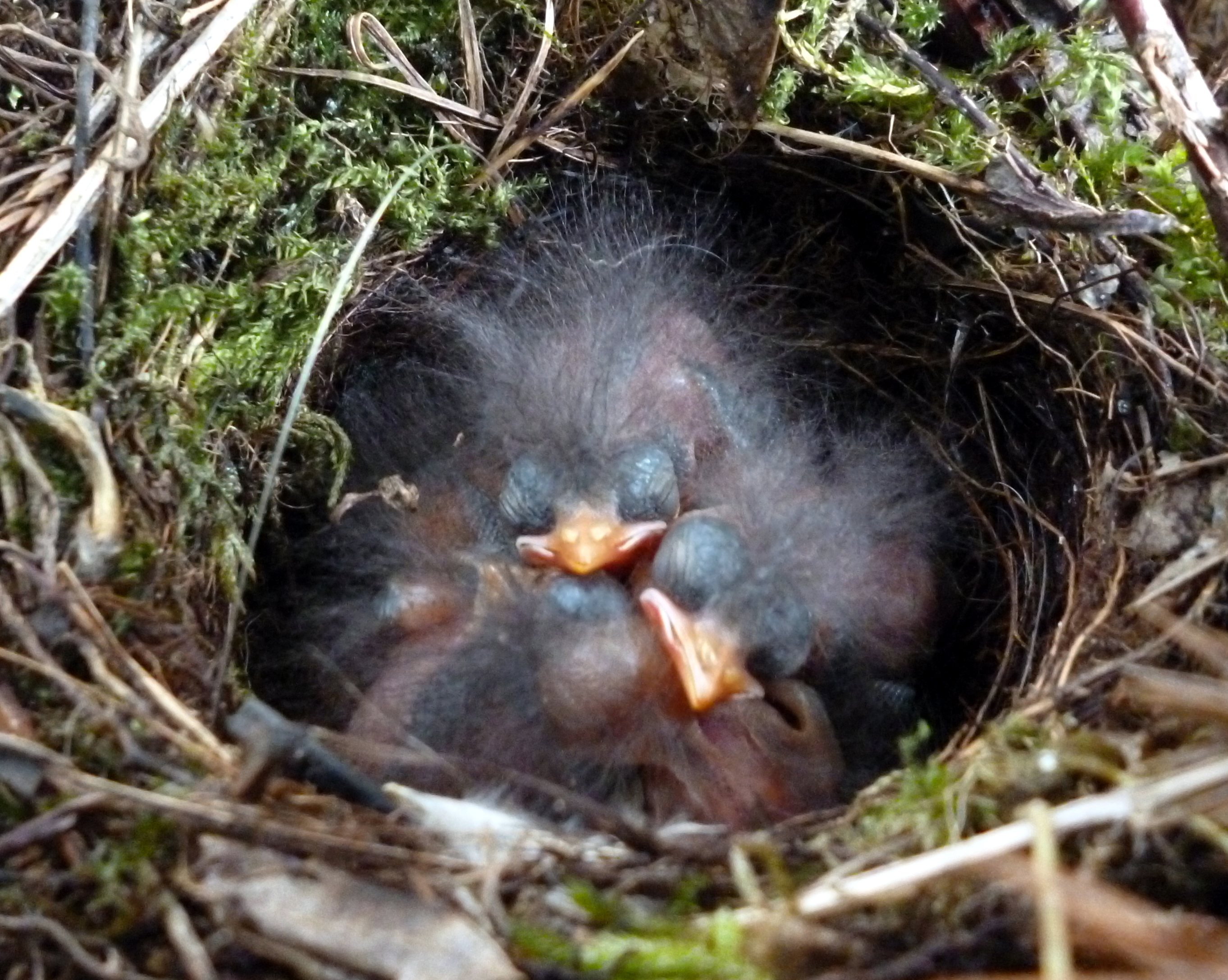 Juveniles of Dunnock (Prunella modularis) in nest